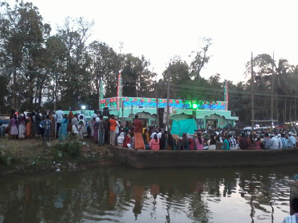 An Eve of Nercha Celebration